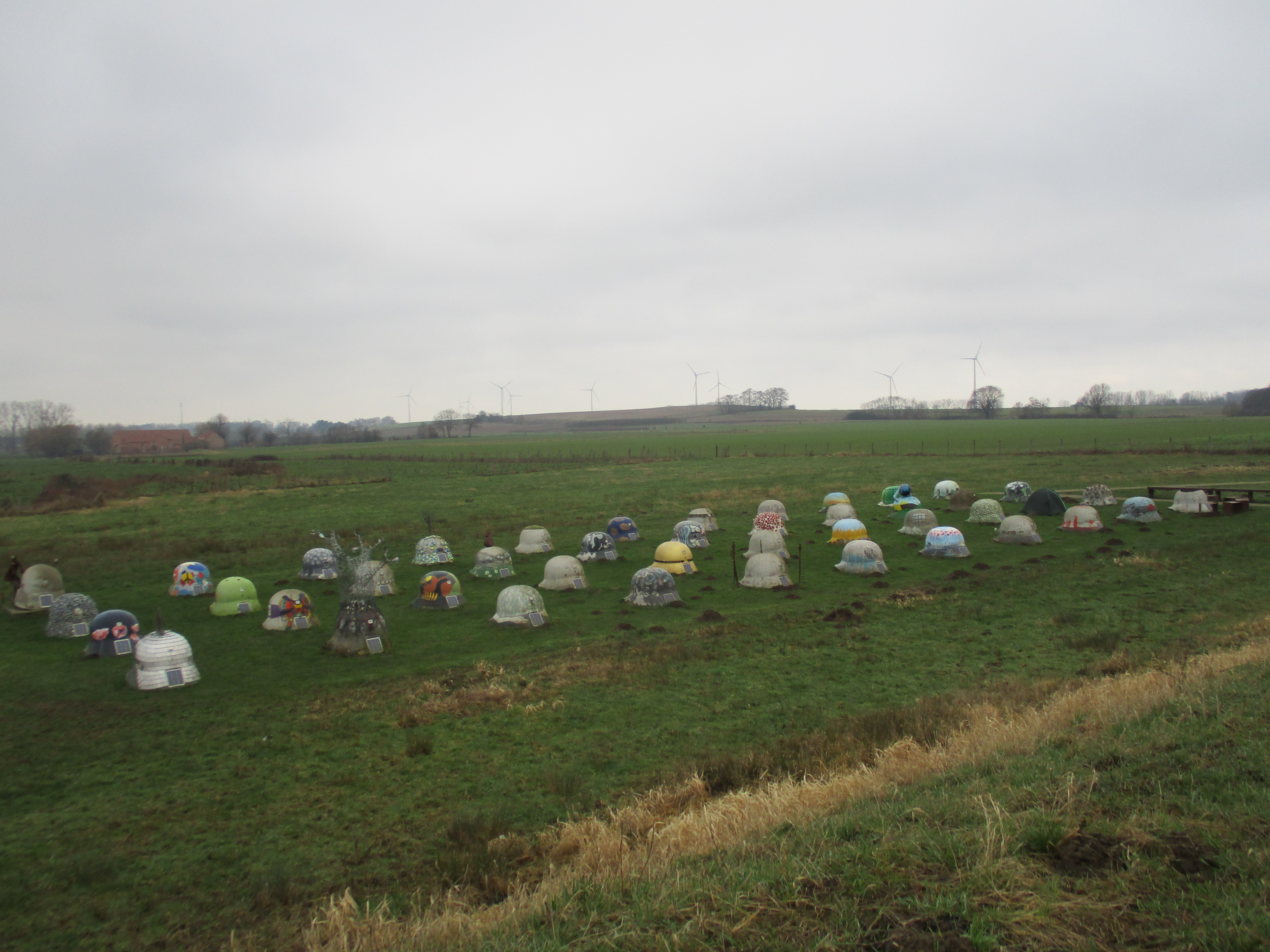 44 helmets that symbolize the German occupation of Limburg, Belgium